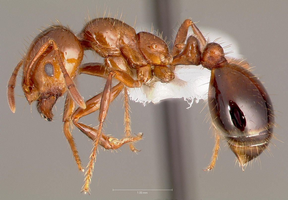 Profile view of ant Solenopsis invicta specimen casent0005804.